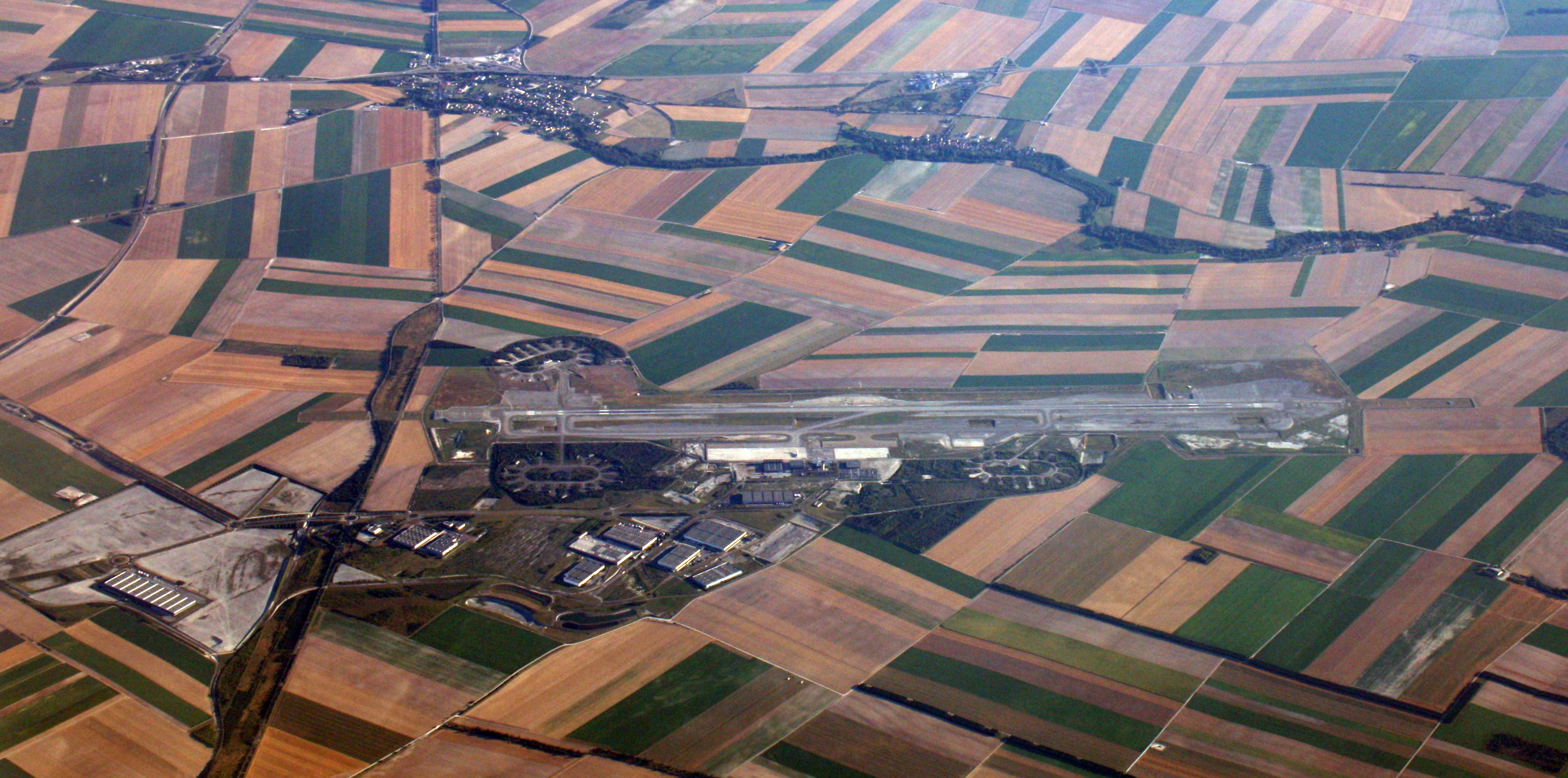 Paris-Vatry airport, France.